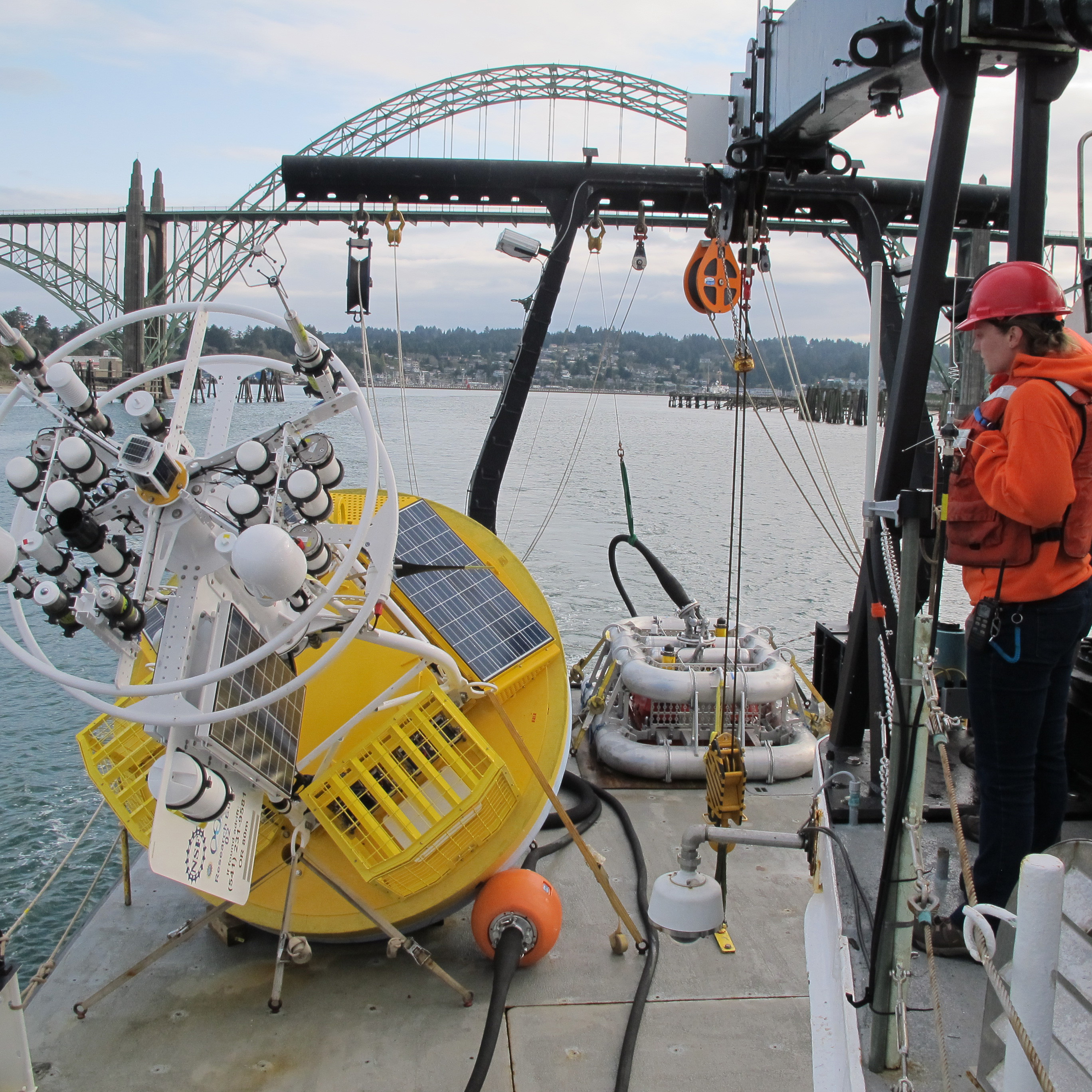 Original description: "OSU marine technician Johna Winters looks over the Oregon shelf surface mooring on the starboard main deck as the R/V Oceanus transits from Newport. The Yaquina Bay bridge is in the background. Four of these surface moorings were deployed on this cruise."